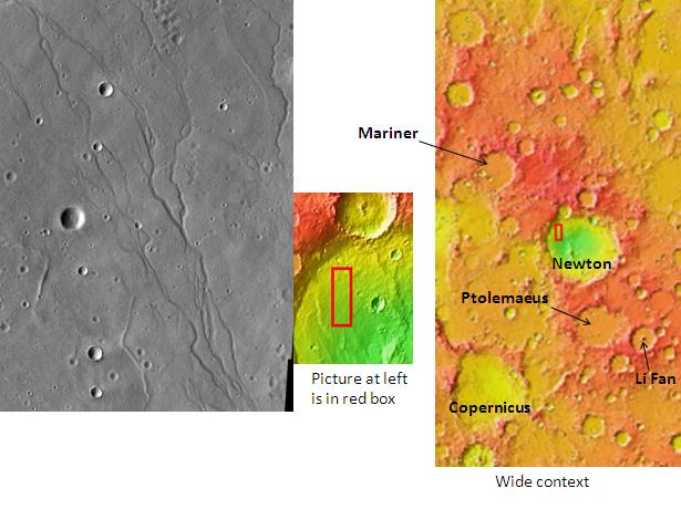 Newton crater as seen by themis. The location is 39.1 degrees south latitude and 159.9 degrees west longitude. Picture taken with Mars Odyssey's THEMIS. Photo credit NASA/JPL/ASU.